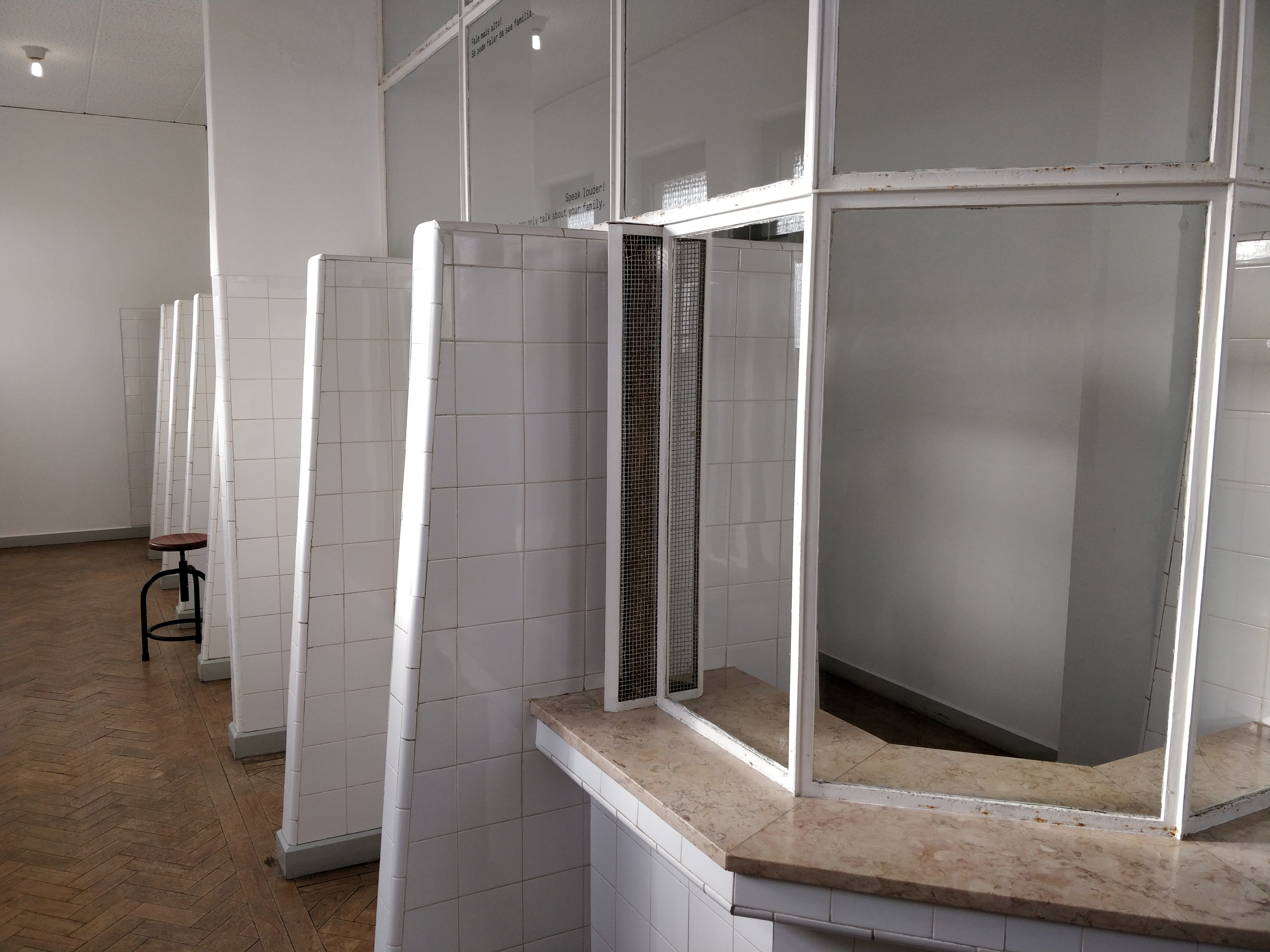 Peniche Fortress was used as a prison during Portugal's military dictatorship, the Estado Novo. Prisoners and visitors were told to speak loudly so that the guards could hear and to only talk about family matters